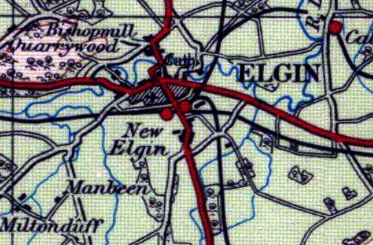 The Elgin railway stations on the 1923 OS map. The Morayshire Railway opened the line heading north to Lossiemouth in 1852. The horizontal west-east line opened, with a second station, by the Inverness & Aberdeen Junction Railway in 1858. The Morayshire Railway opened the line heading south to Rothes in 1862. The other line the east was built by the Great North of Scotland Railway after they had absorbed the Morayshire.